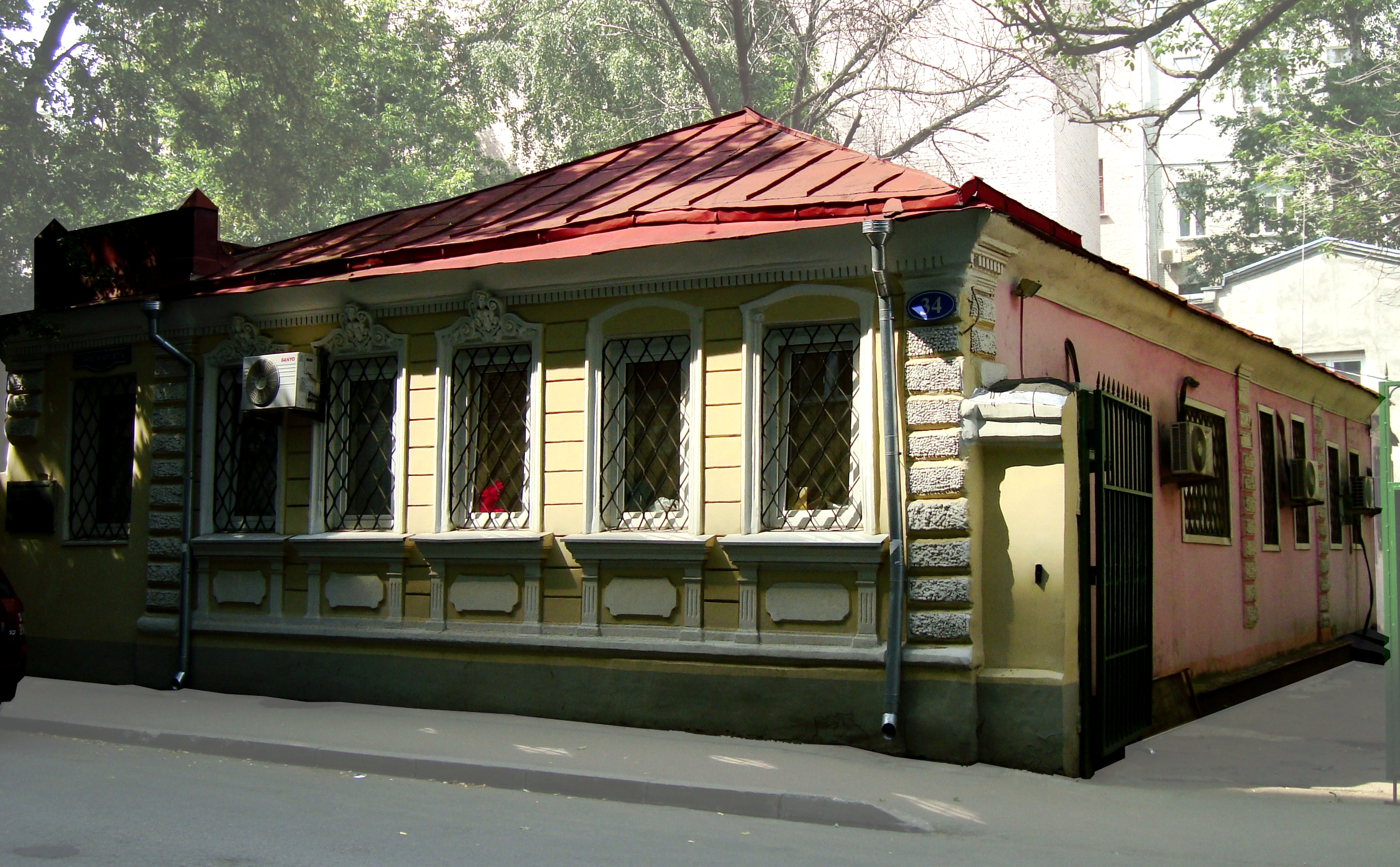 Moscow, Earth city, Sivtsev Vrazhek lane - 34, house of Leo Tolstoy 1850-51. The house has been mentioned in the novel "War and peace"